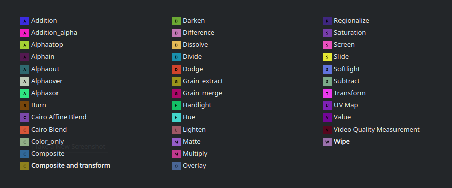 All compositions of Kdenlive 20.04.1